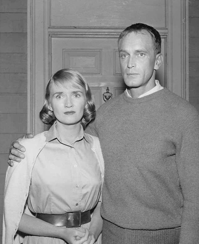 Photo from the television series The Twilight Zone The episode is "The Monsters Are Due on Maple Street"; pictured are Barry atwater and Lea Waggner